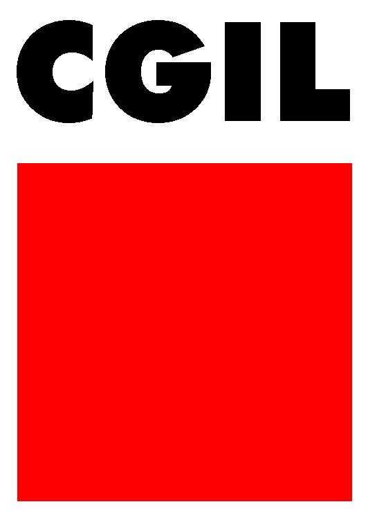 CGIL logo